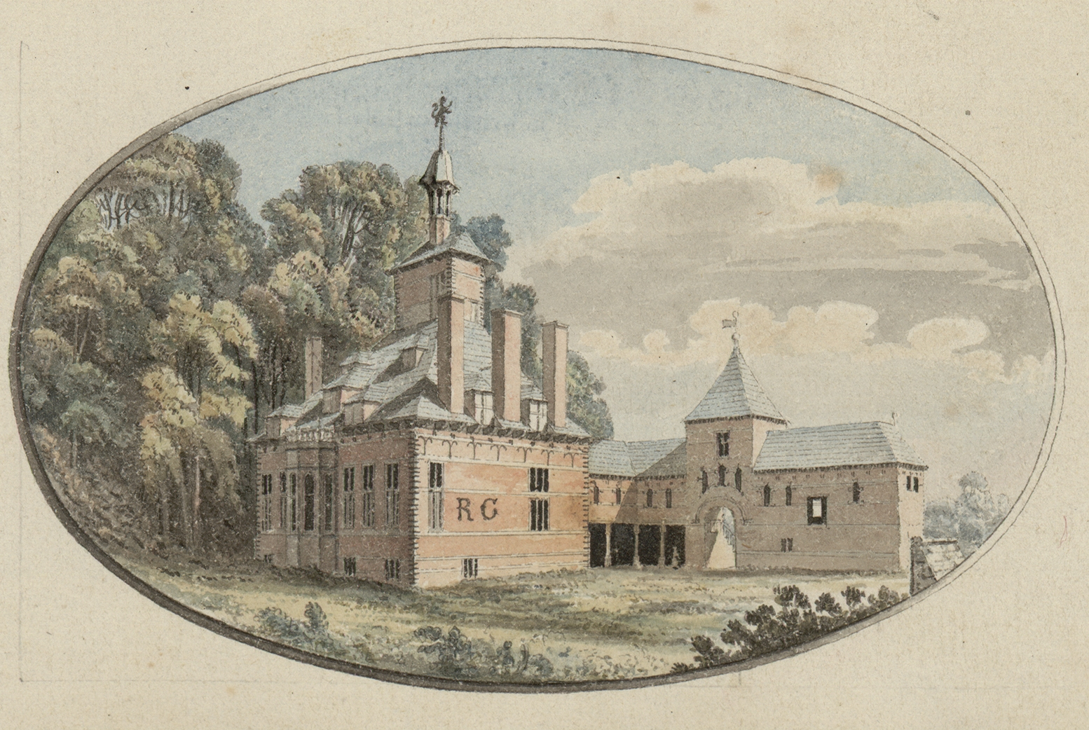 An image from a set of 8 extra-illustrated volumes of A tour in Wales by Thomas Pennant (1726-1798) that chronicle the three journeys he made through Wales between 1773 and 1776. These volumes are unique because they were compiled for Pennant's own library at Downing. This edition was produced in 1781. The volumes include a number of original drawings by Moses Griffiths, Ingleby and other well known artists of the period. Thomas Pennant (1726-1798)